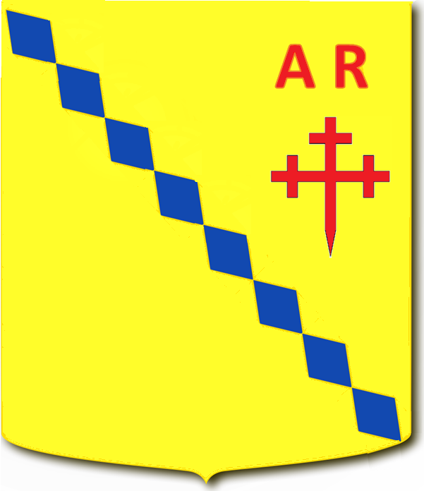 Malaza family shield